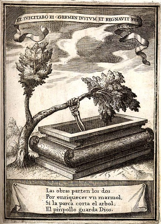 Emblem from "Descripcion de las honras que se hicieron a Phelippe Quarto" by Pedro Rodriguez de Monforteon on the occasion of funeral ceremonies for Philip IV of Spain, Madrid, September 1665. Illustration by Pedro de Villafranca Malagon.